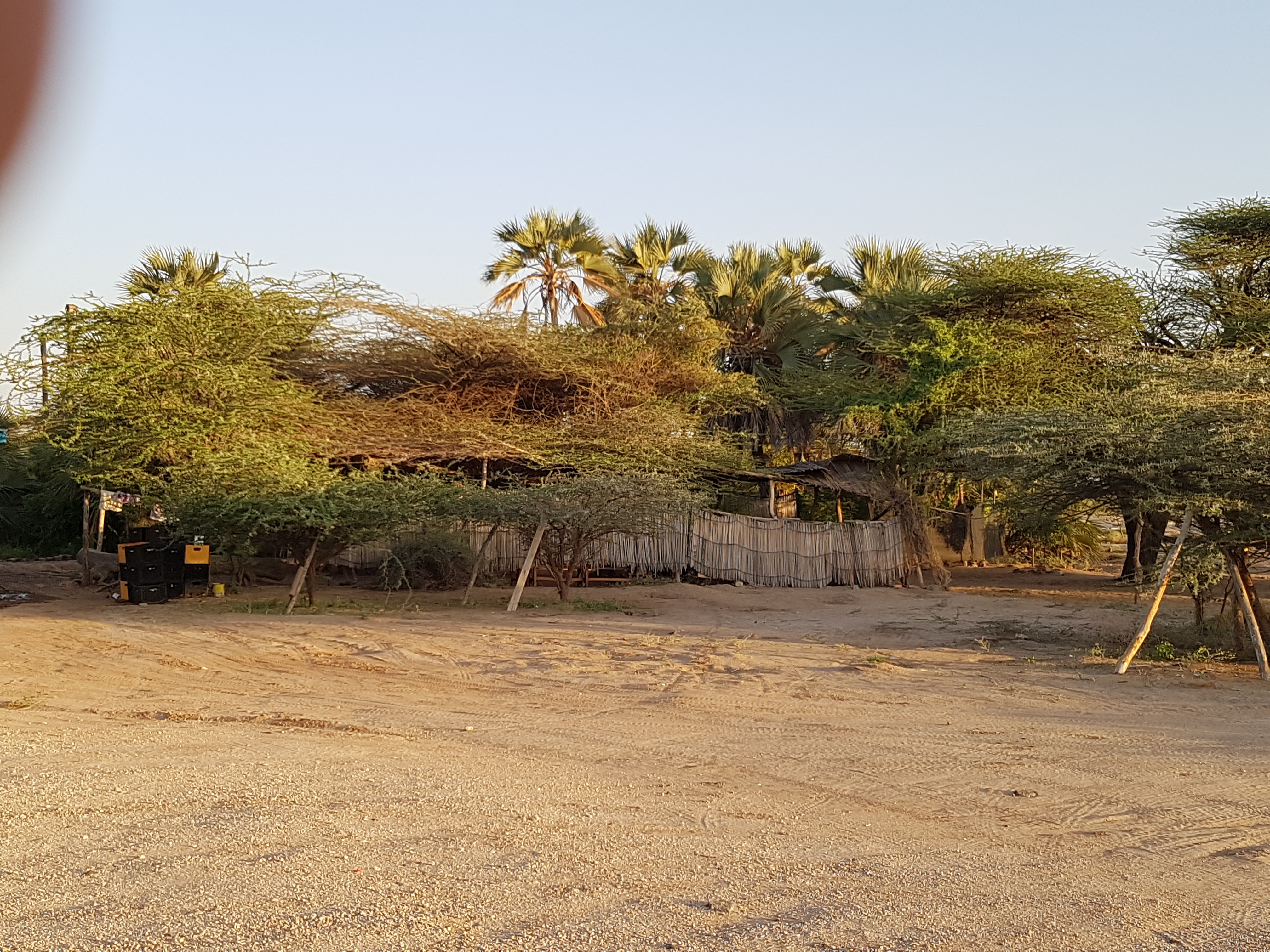 Resort centre in the heart of the Desert. This is an image with the theme "Play" from: Kenya